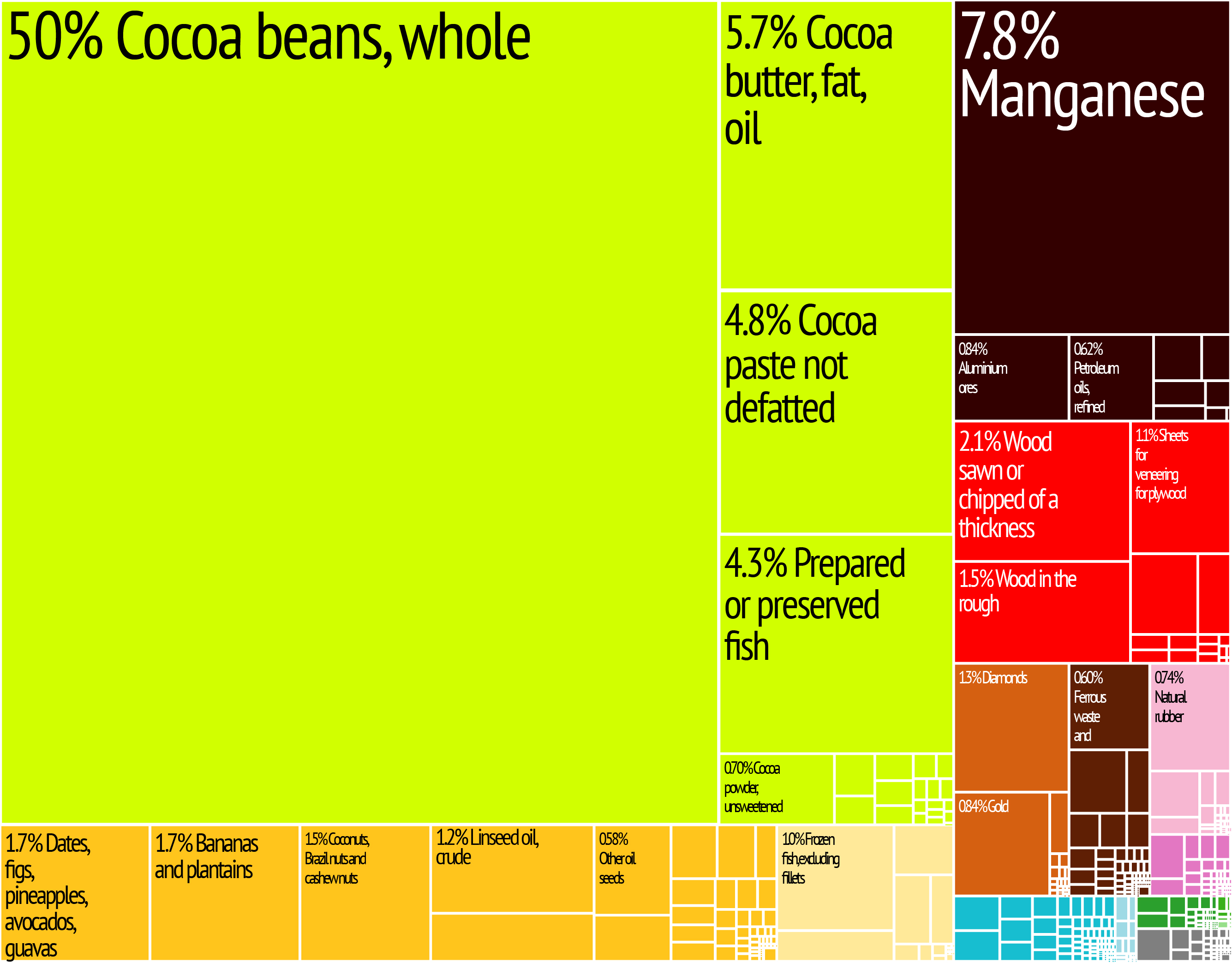 Ghana Export Treemap from MIT Harvard Economic Complexity Observatory